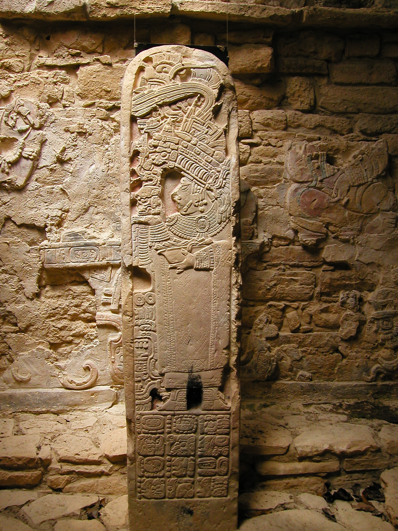 Stela 35 from Yaxchilan, depicting Lady Eveningstar, mother of king Bird Jaguar IV.